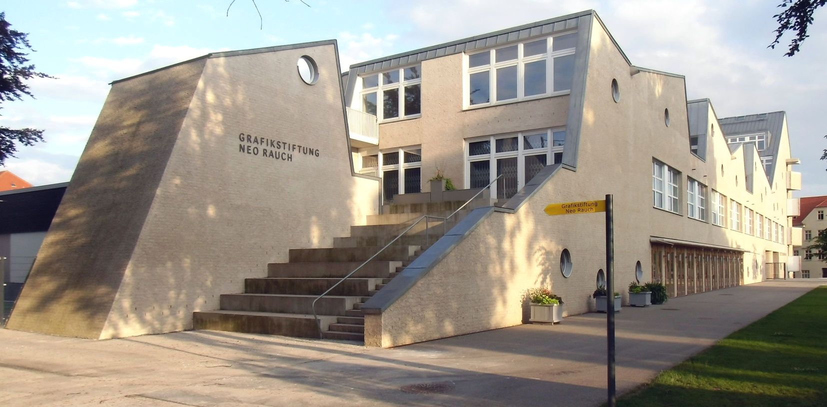 Neo Rauch Foundation for Graphic Artworks, Aschersleben, Germany